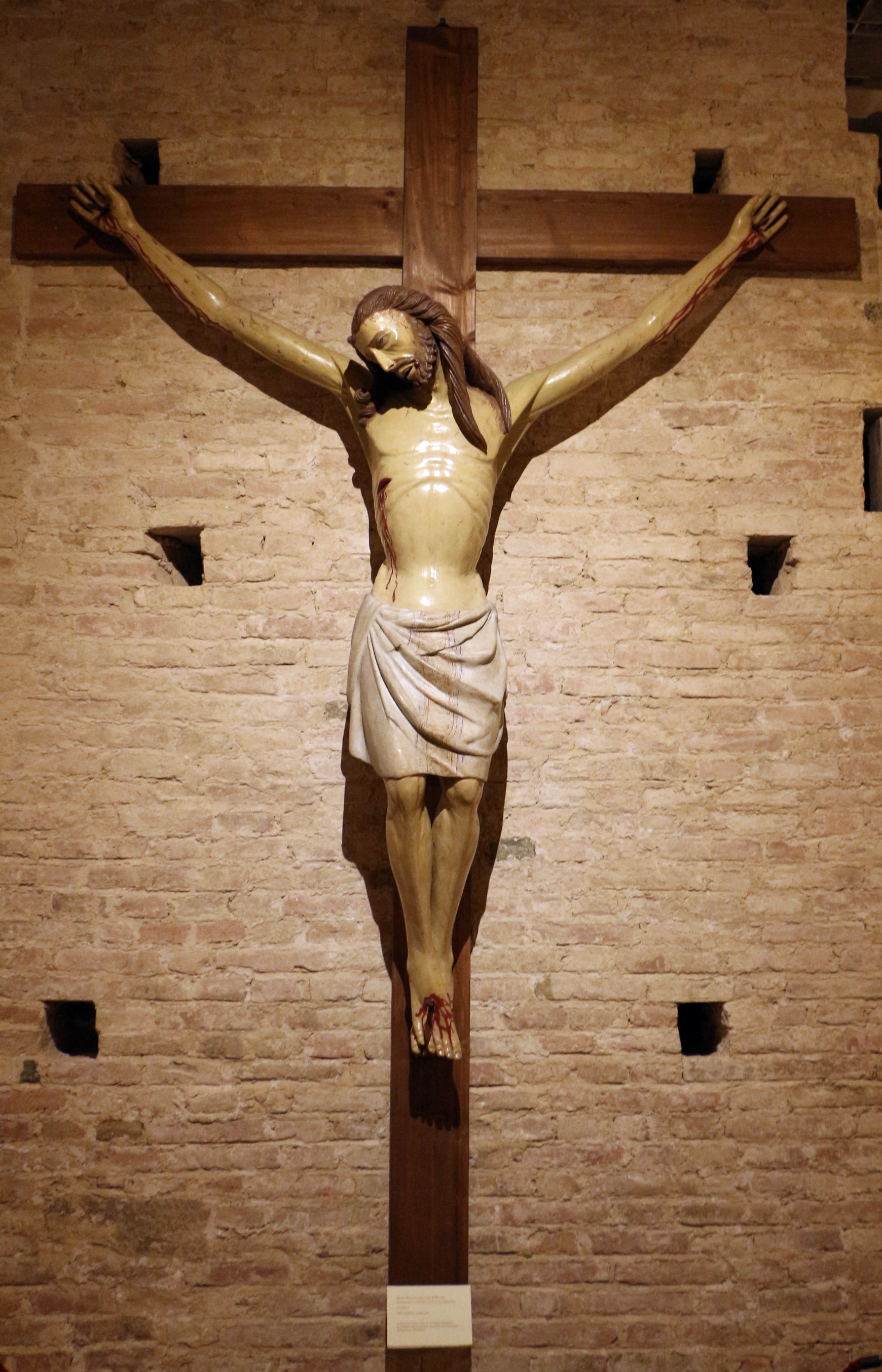 Cathedral (Siena) - Crypt